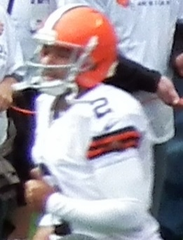 Reggie Hodges, Cleveland Browns punter, before a 2012 regular season game